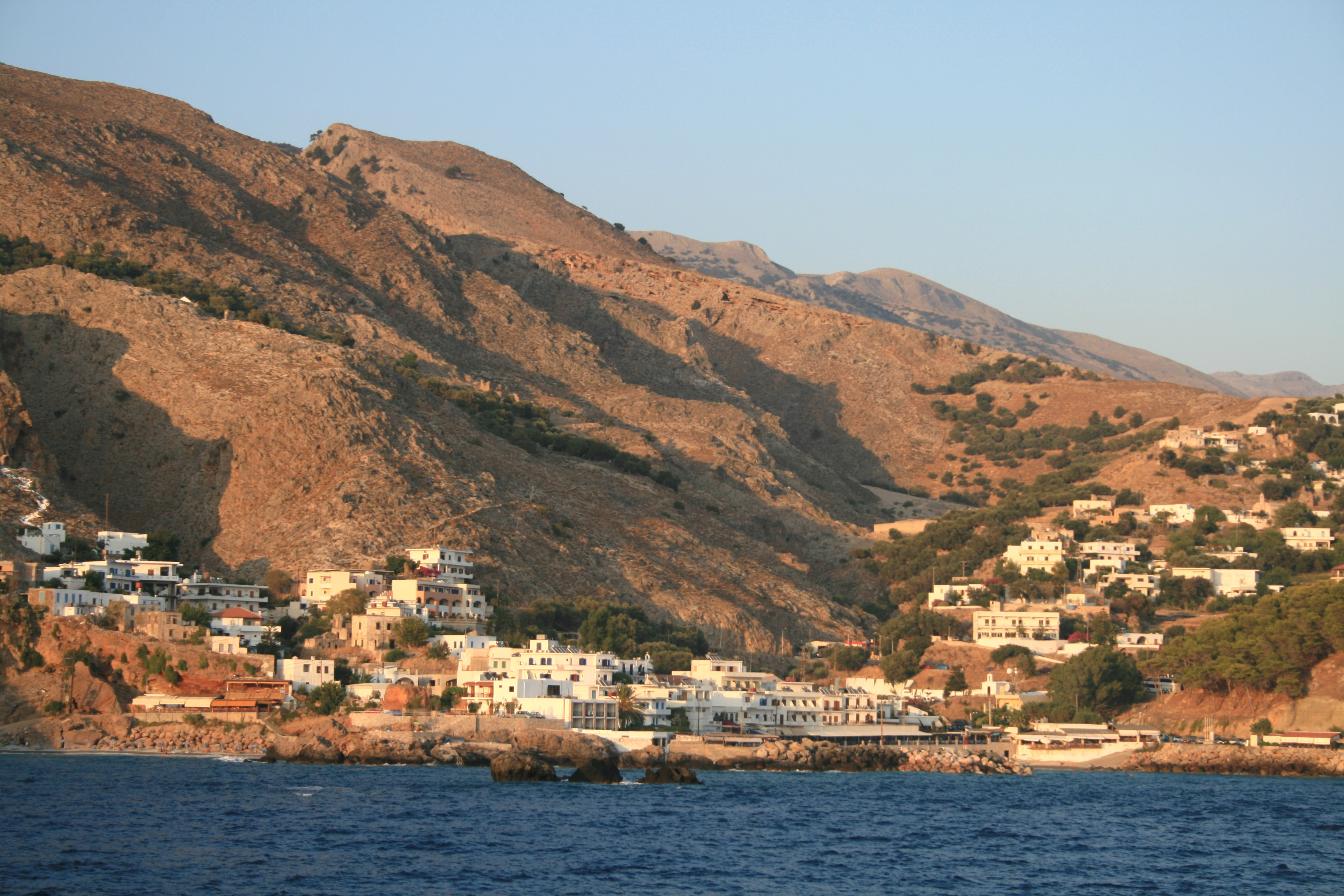 View from the sea to Hora Sfakion, Crete, Greece